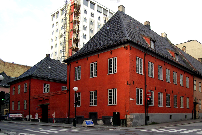 Garmanngården, Rådhusgata 7, Oslo. Oldest part in Dronningens gate (foreground) built 1647. Side wing in Rådhusgata 1750. Today offices of Norwegian Authors' Union (Den norske forfatterforening), Writers Guild of Norway (dramatikerforbundet) and other writers associations).